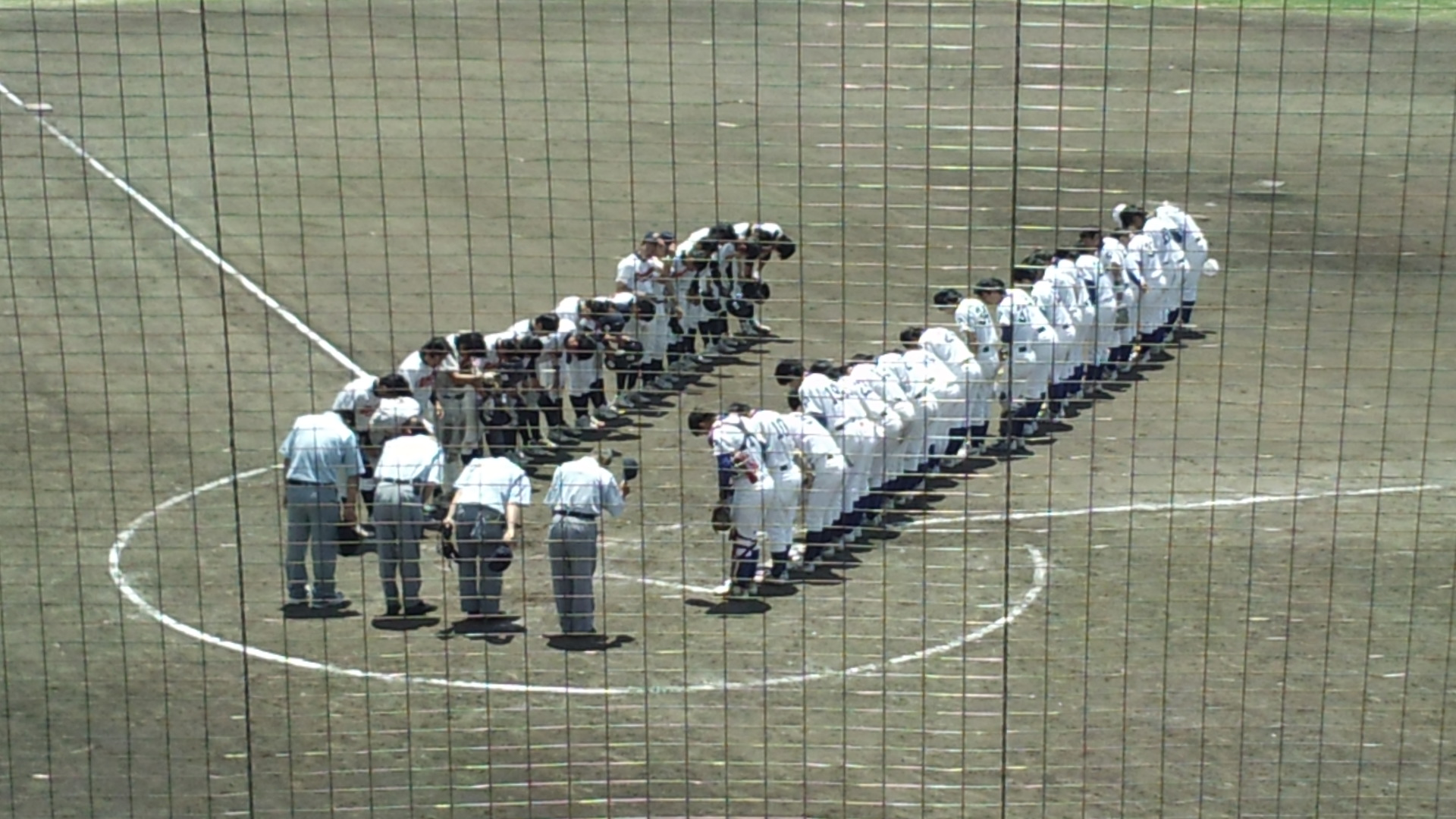 Greeting of Baseball(at kinki College Baseball League Championship Osaka Univ vs Wakayama Univ)